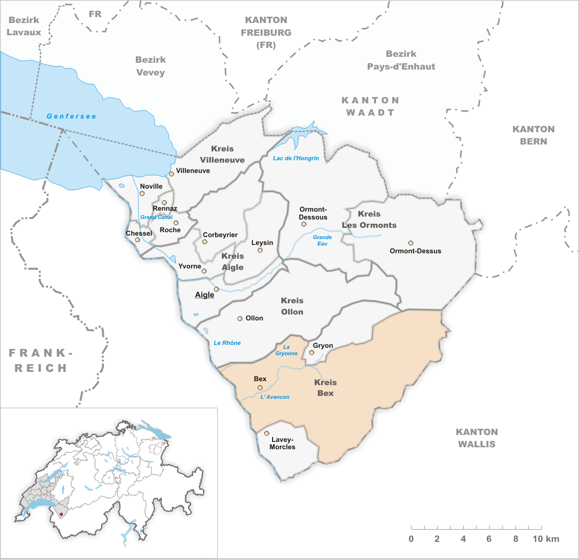 Municipality Bex